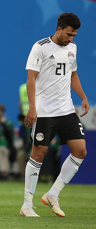 Mahmoud Ahmed Ibrahim Hassan